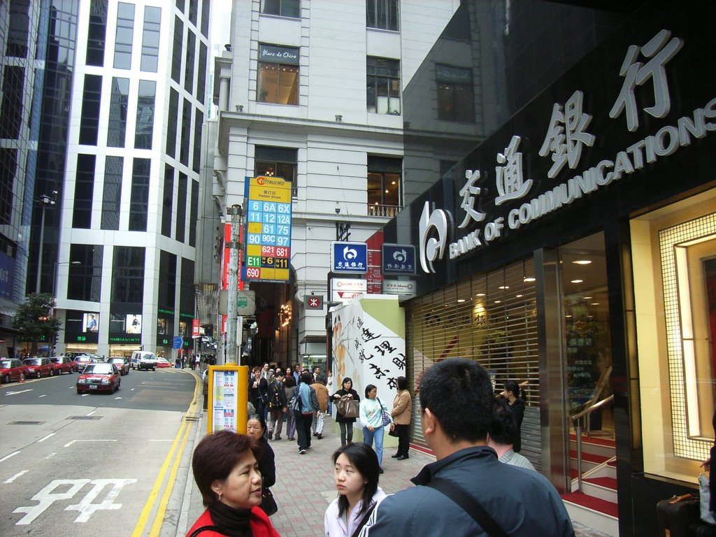 Bus stop in Pedder Street, Central, Hong Kong by ShingWong